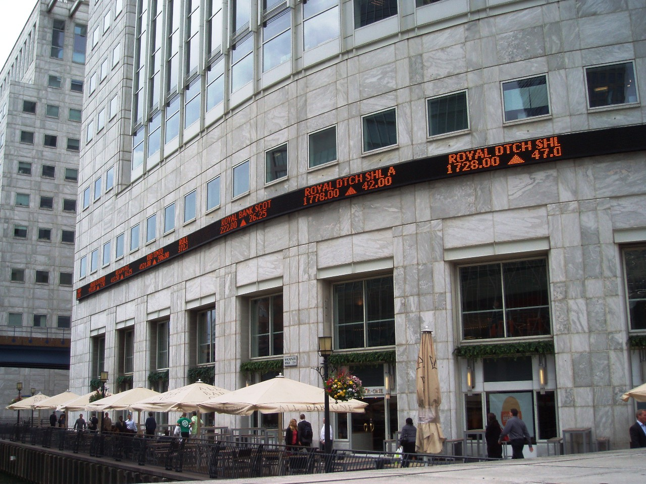 A chain bar, right opposite the tube station and next to a Slug & Lettuce. Address: 42 Mackenzie Walk. Owner: Mitchells and Butlers [All Bar One] (website). Links: Fancyapint Beer in the Evening